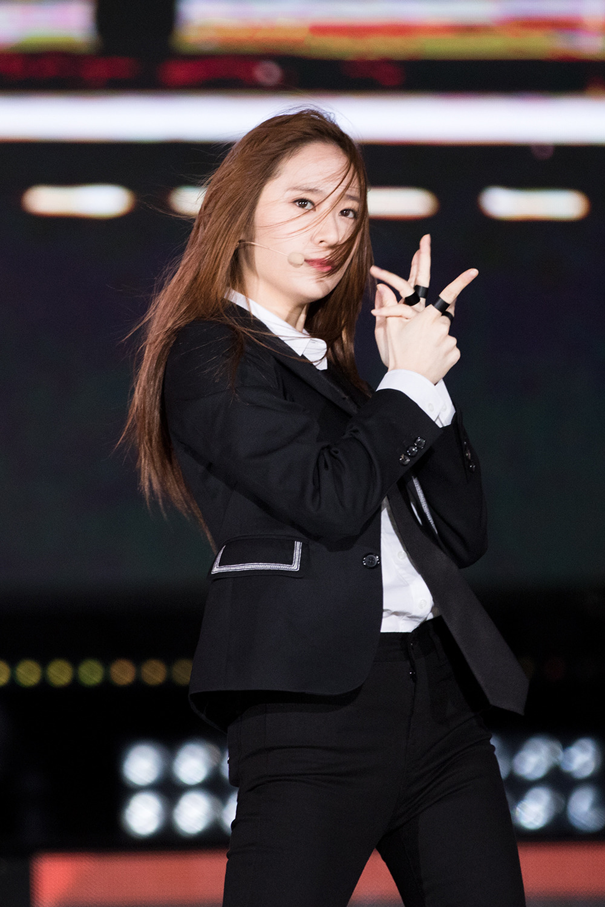 Krystal Jung at Jeju K-Pop Festival on October 25, 2015.